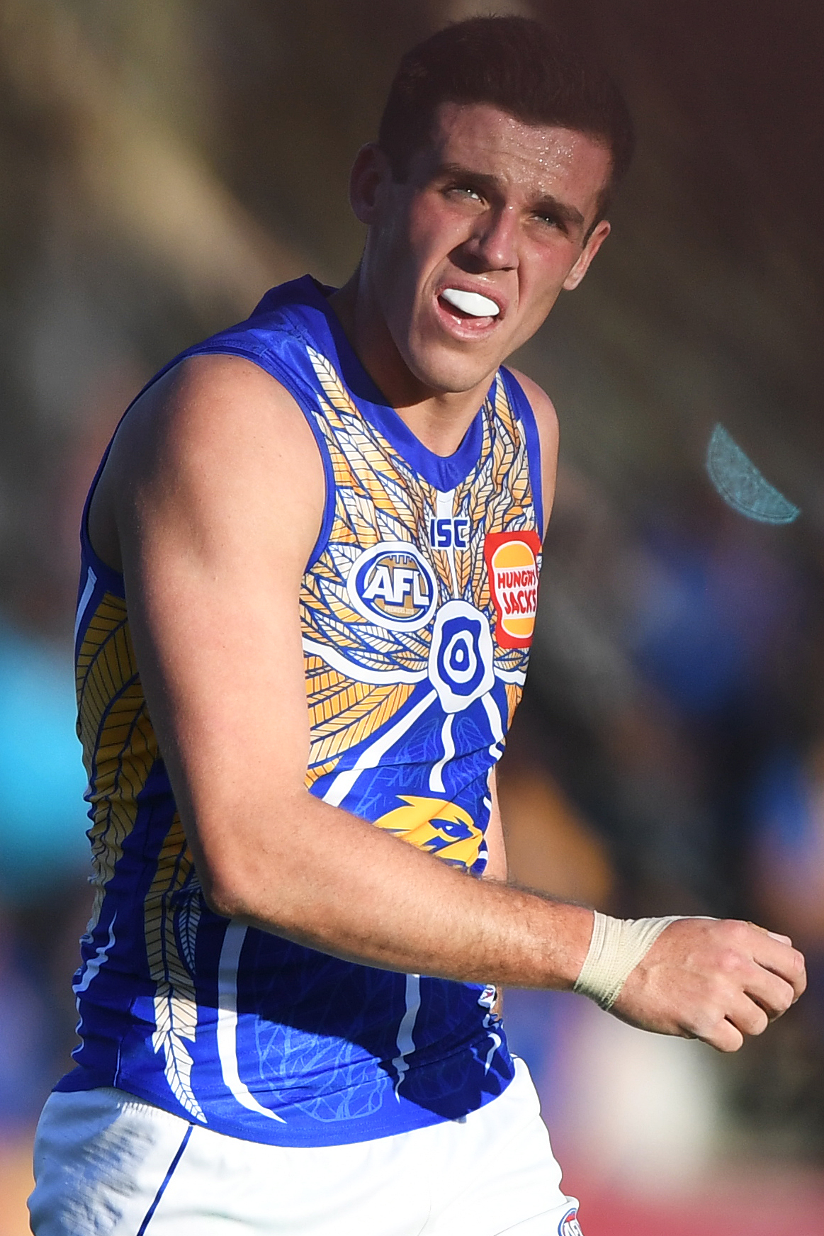 Jake Waterman of West Coast during the 2019 AFL round 18 match between Melbourne and West Coast at Traeger Park on Sunday, 21 July 2019 in Alice Springs, Northern Territory.